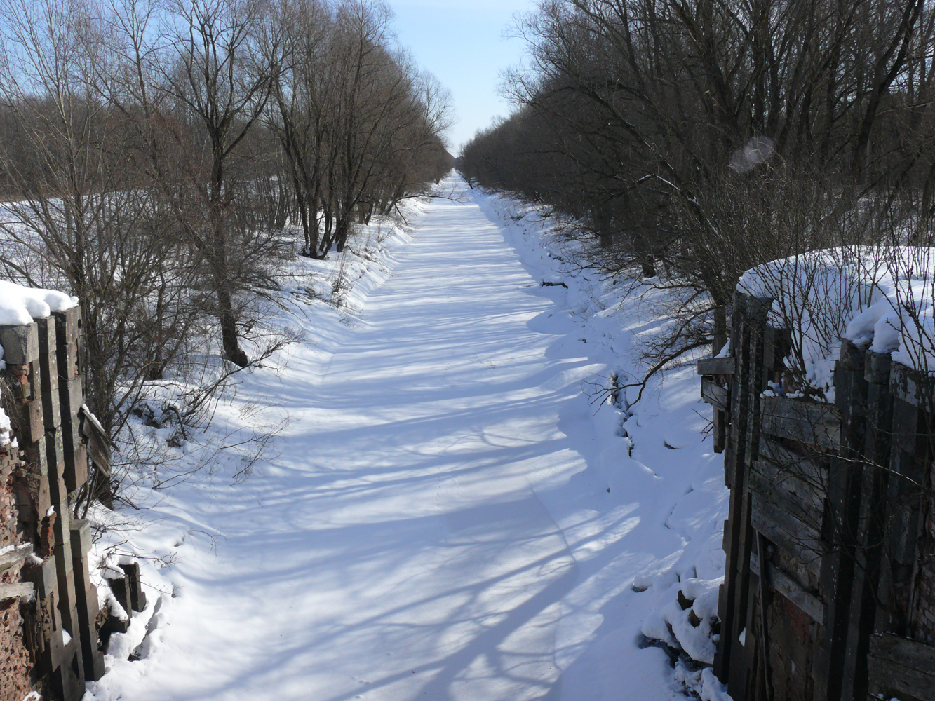 Visherskiy canal between Msta river and Vishera river near Velikiy Novgorod, Russia